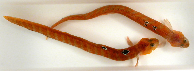 Halfbarred pout Gymnelus hemifasciatus Andriashev, 1937